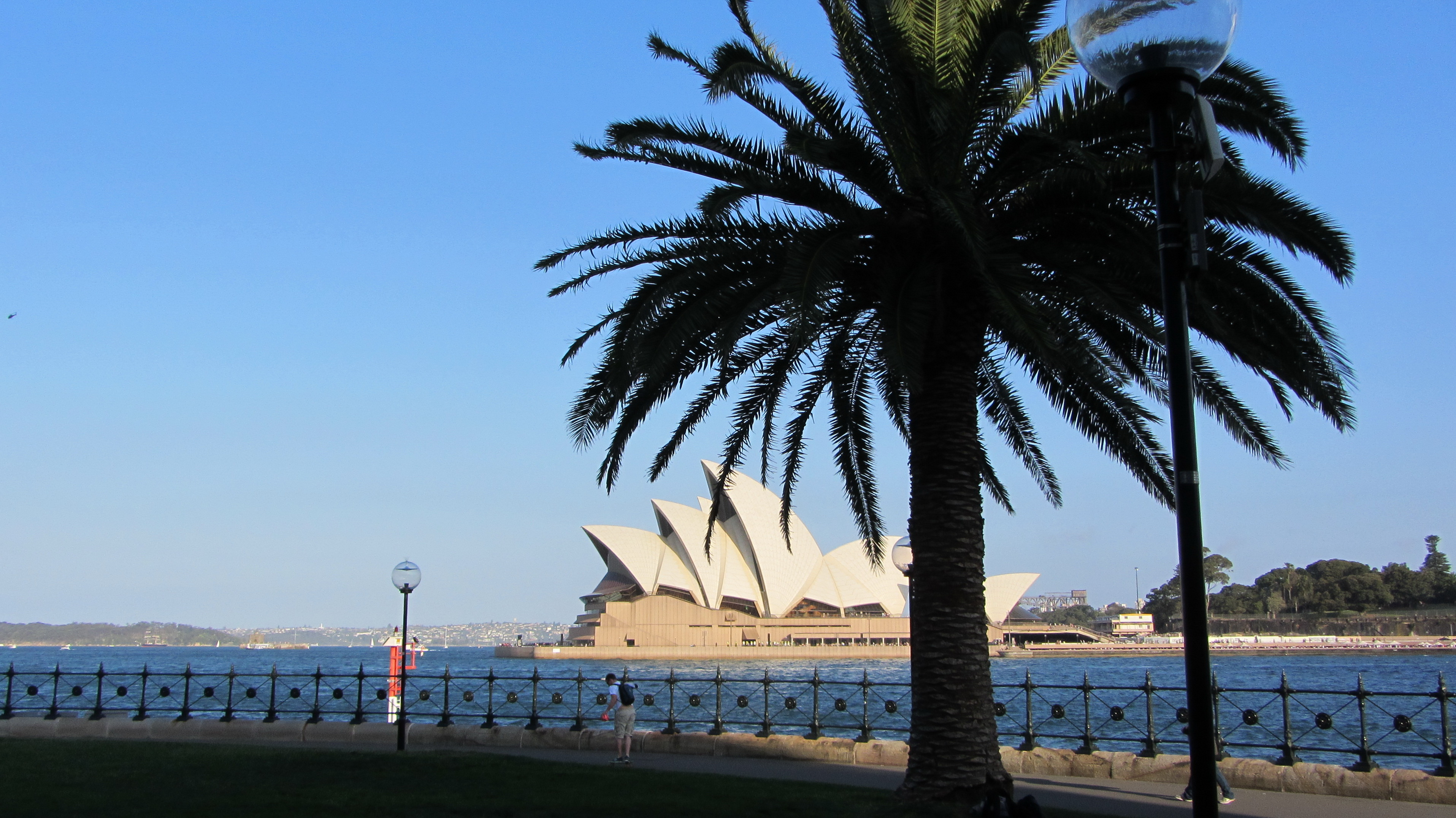 Sydney Cove, Sydney Harbour, New South Wales, Australia